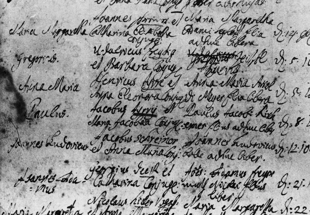 Certificate of baptism of the Baron d'Holbach.